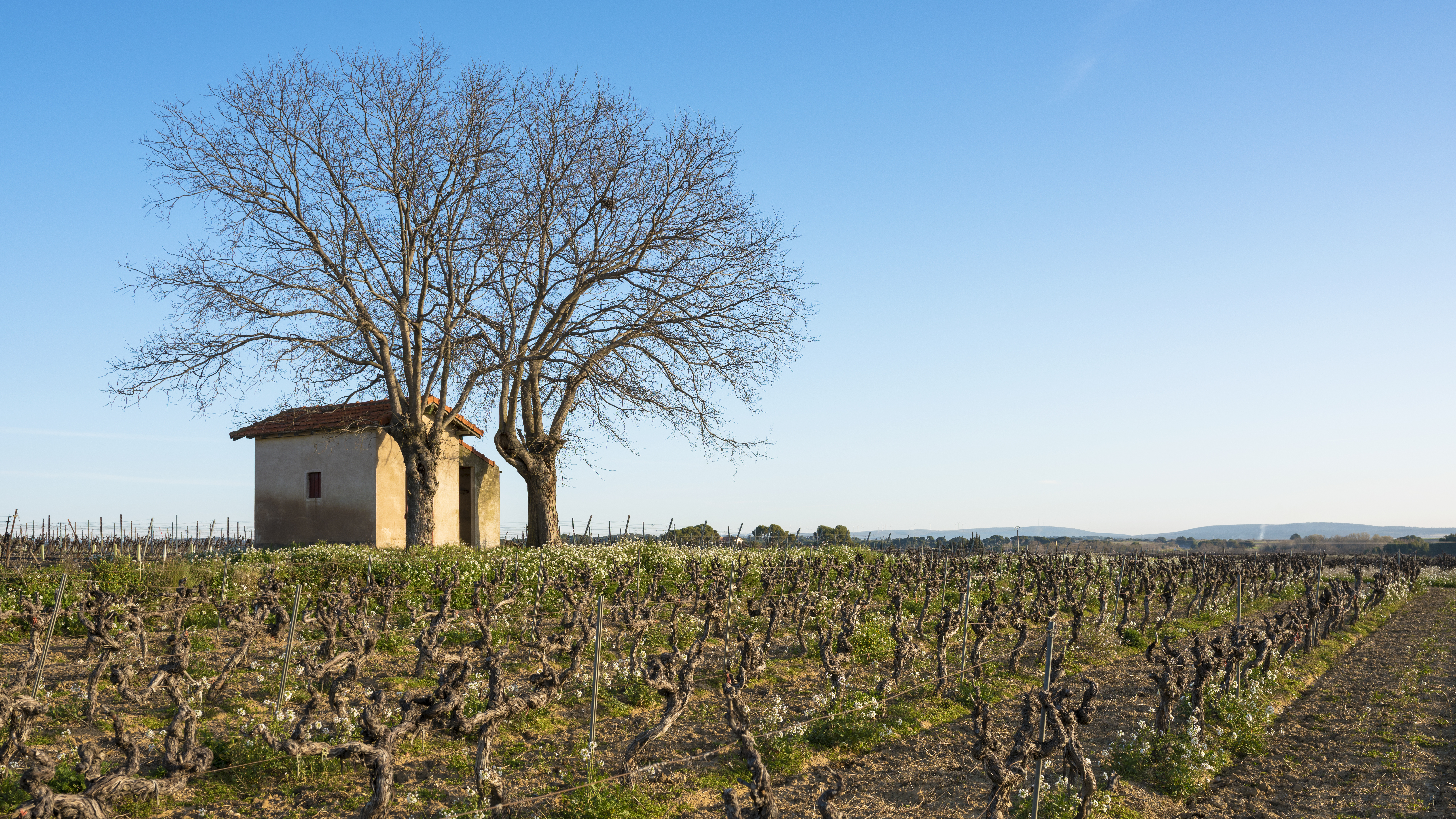 A mazet (agricultural building) in vineyards. Mèze, Hérault, France